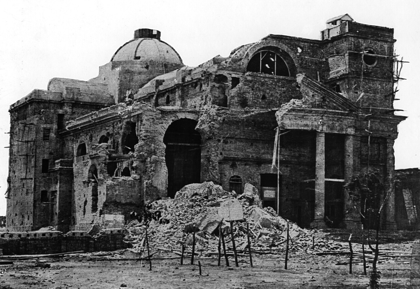 Basilica de paysandu destruida por los bombardeos brasileros